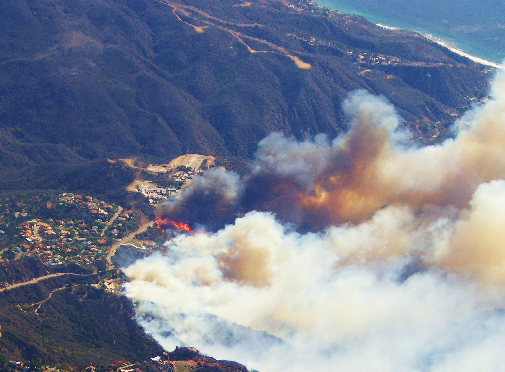 Flames roaring towards homes in the hills above Malibu. Taken from a United Airlines flight that just departed from LAX for SEA.